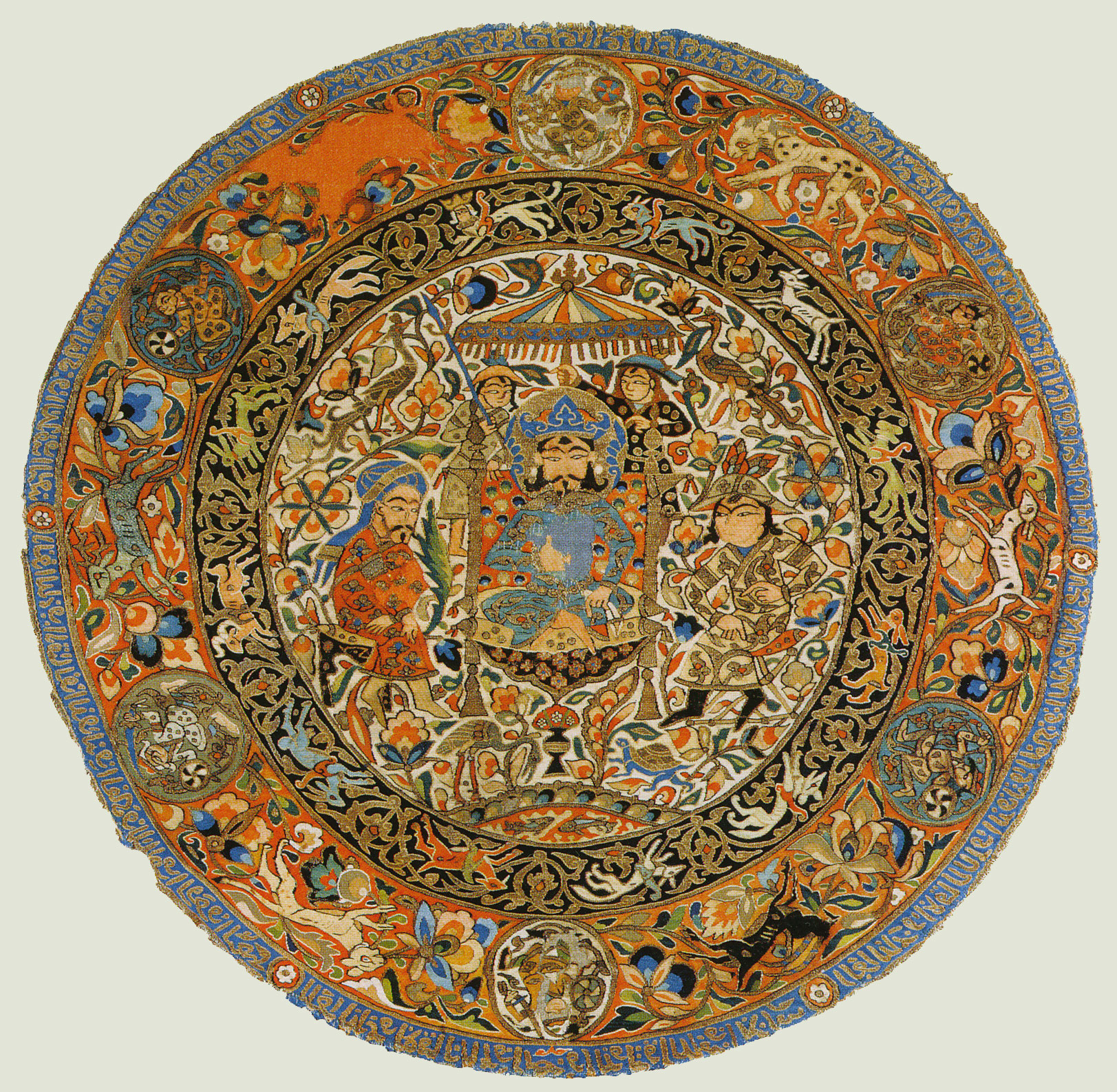 Circular piece of silk with Mongol images, Iran or Iraq, early 14th century. Silk, cotton and gold. Original size: diam. 69 cm. Davids Samling, Copenhagen, Inv-no. 30/1995.